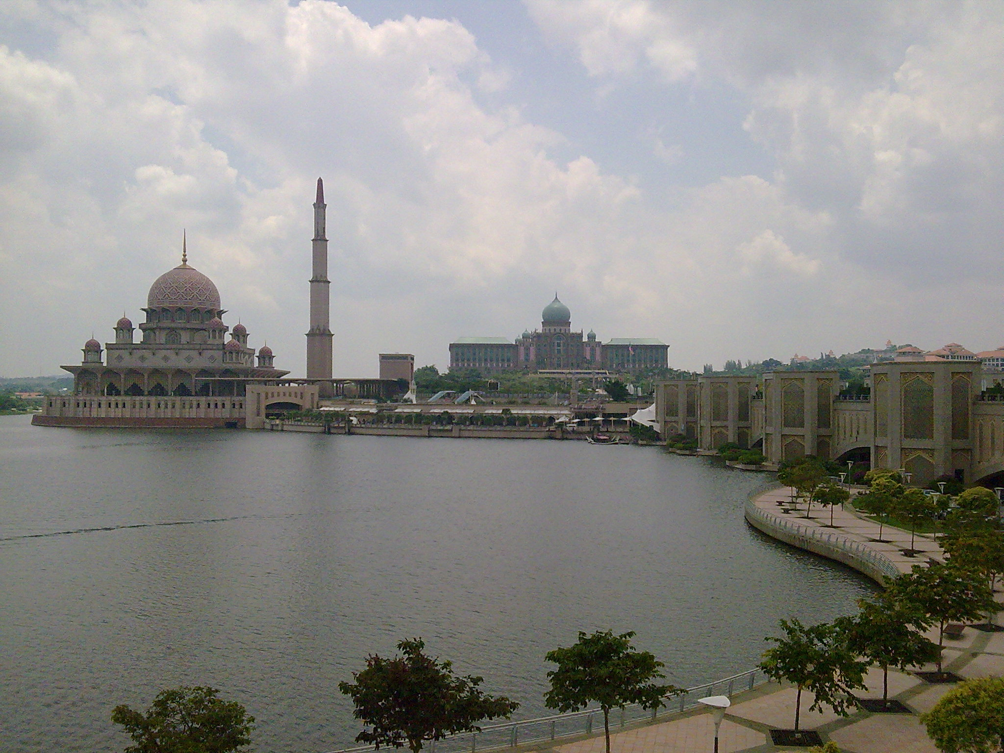 View of Putrajaya from PJH building, Putrajaya, Malaysia.